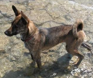 Took the photo (Formosan Dog, a.k.a. Taiwan Dog)